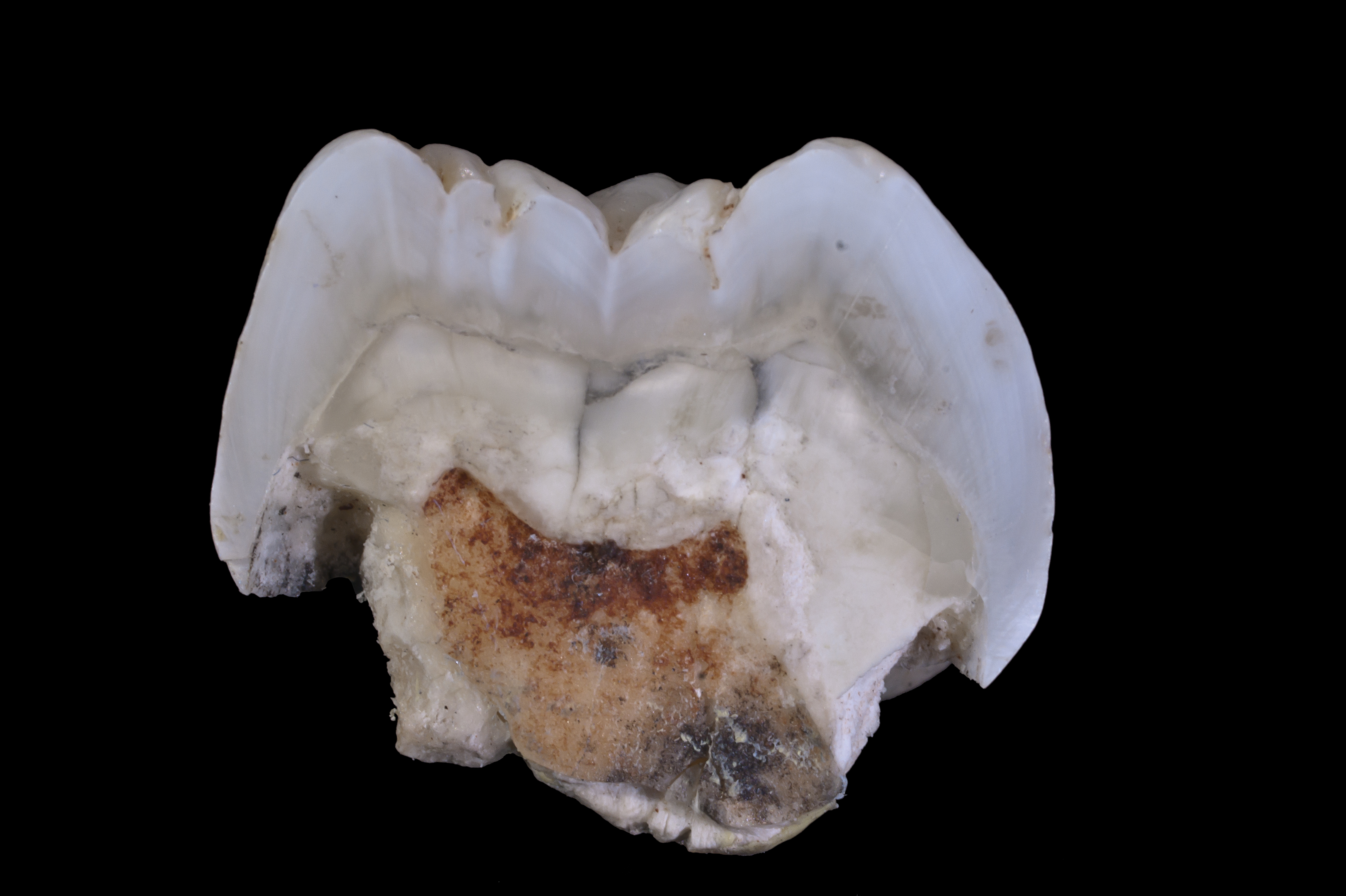 Tooth of Paranthropus robustus SKX 21841 from Swartkrans (26°00'S 27°45'E), Gauteng, South Africa - 1.8 million year-old. Collection of the Transvaal Museum, Northern Flagship Institute, Pretoria South-Africa. Specimens open for study.(16.17x13.09x5.48mm)